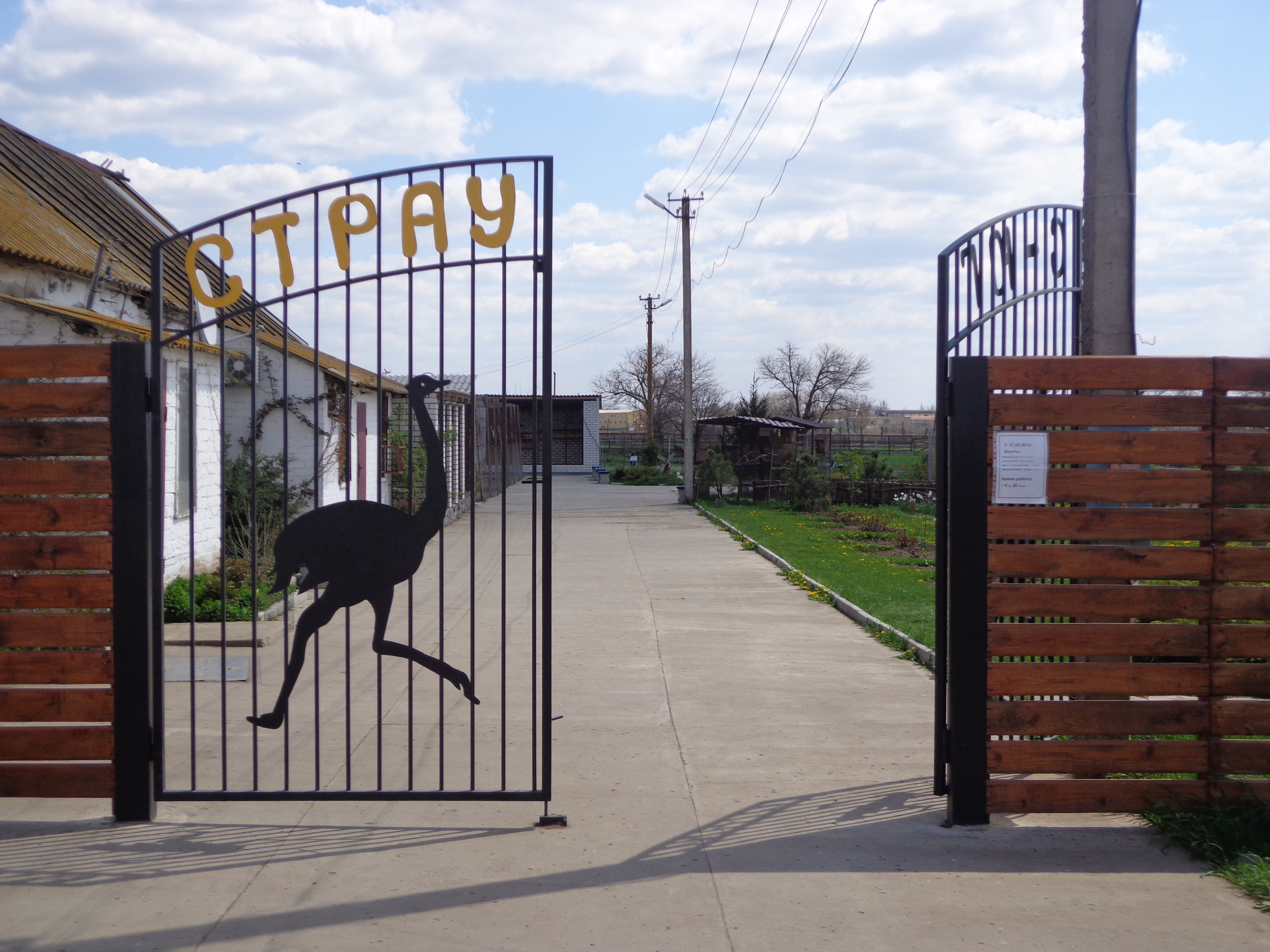 Entrance to Melitopol Ostrich Farm, Melitopol, Ukraine